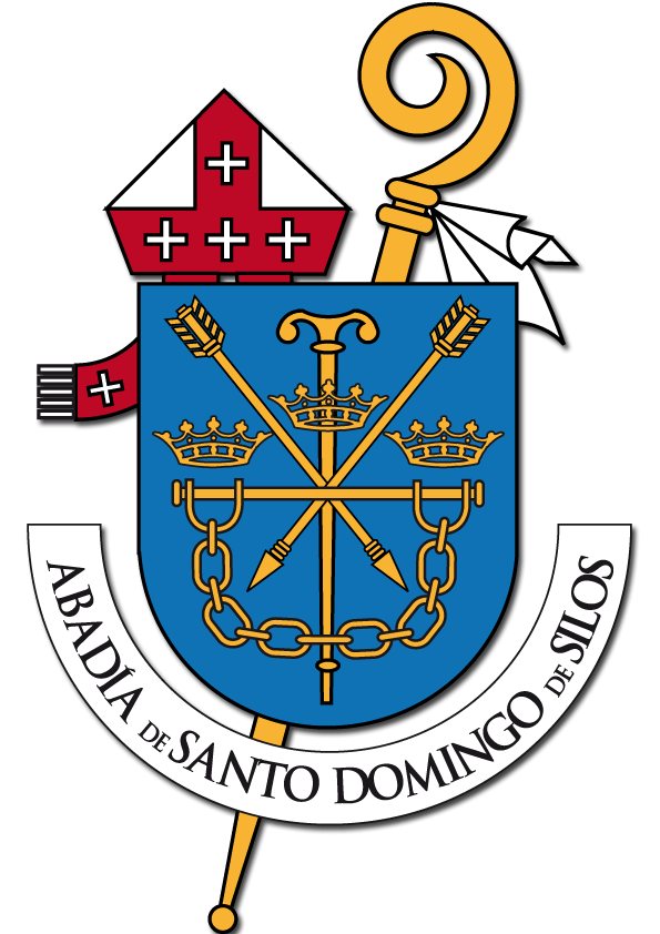 Coats of arms. Ecclesiastical heraldry Abbey Silos. Burgos, Spain